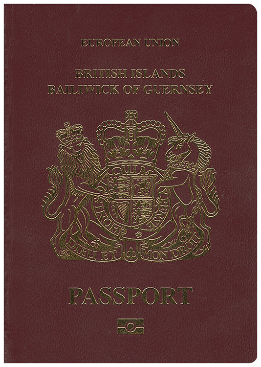 Guernsey passport